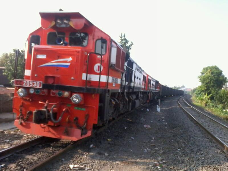 Two EMD GT38ACe (CC205 30 and CC205 09) pulling coal train